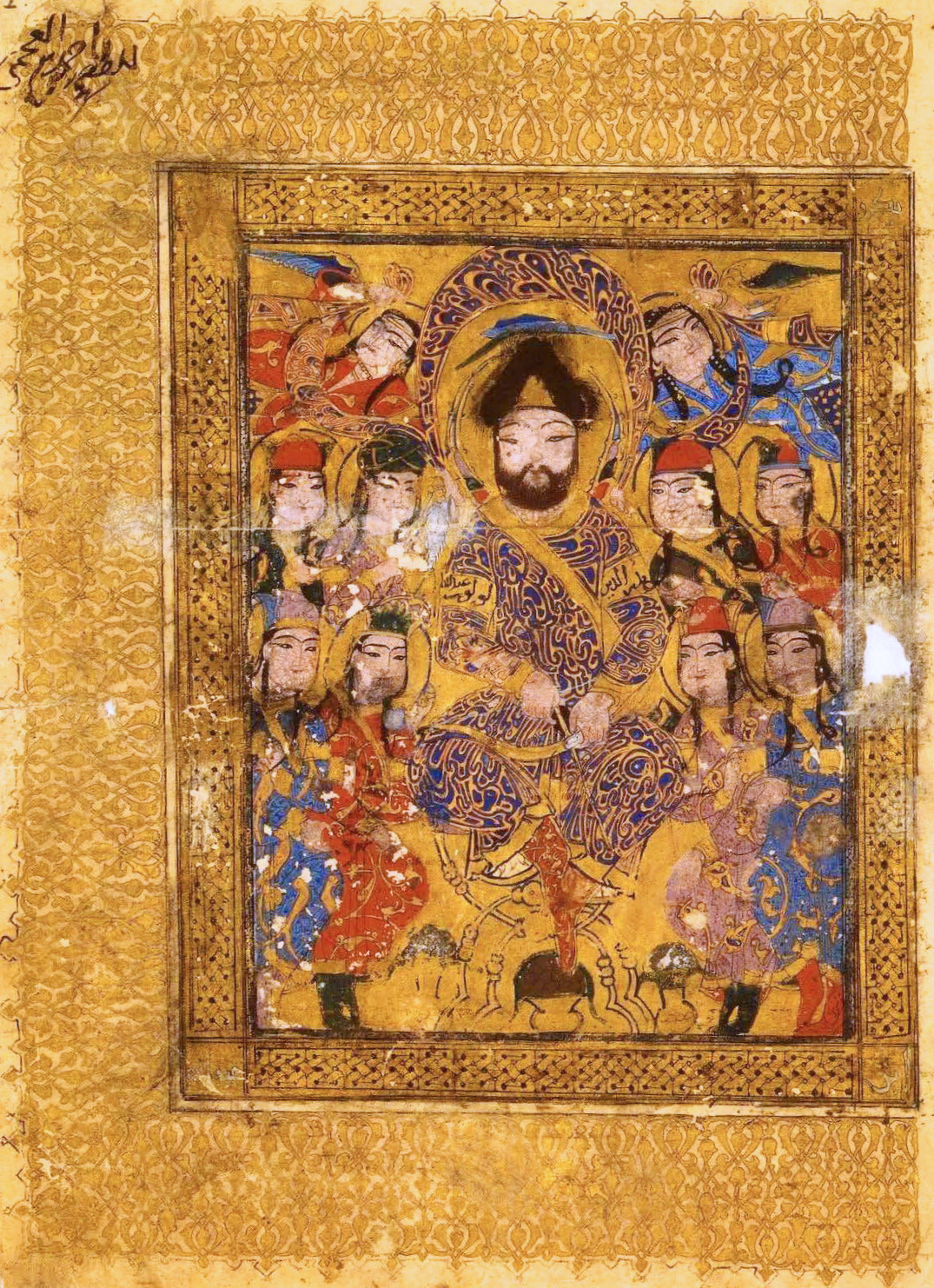 Frontispice of a manuscript of Kitāb al-Aghānī (Book of Songs) of Abu al-Faraj al-Isfahani. It may be a representation of Badr al-Din Lu'lu' (died 1259), Ruler of Mosul. His name (بدر الدين لولو) is readable on the tiraz bands of the sleeves.